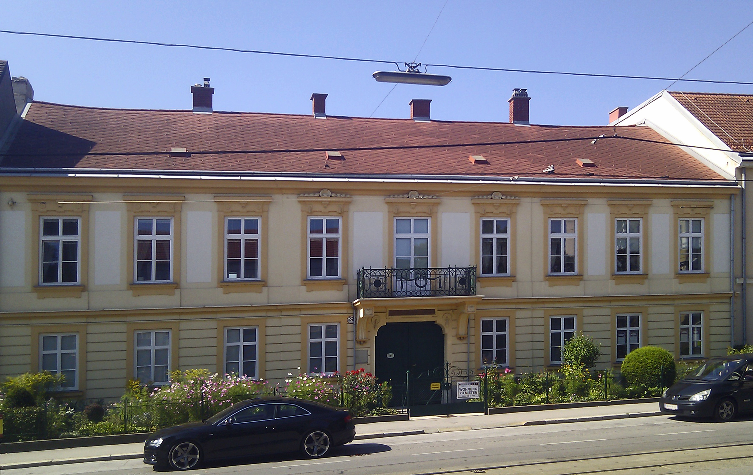 Louisenhof Baden, Kaiser Franz Joseph Ring 33